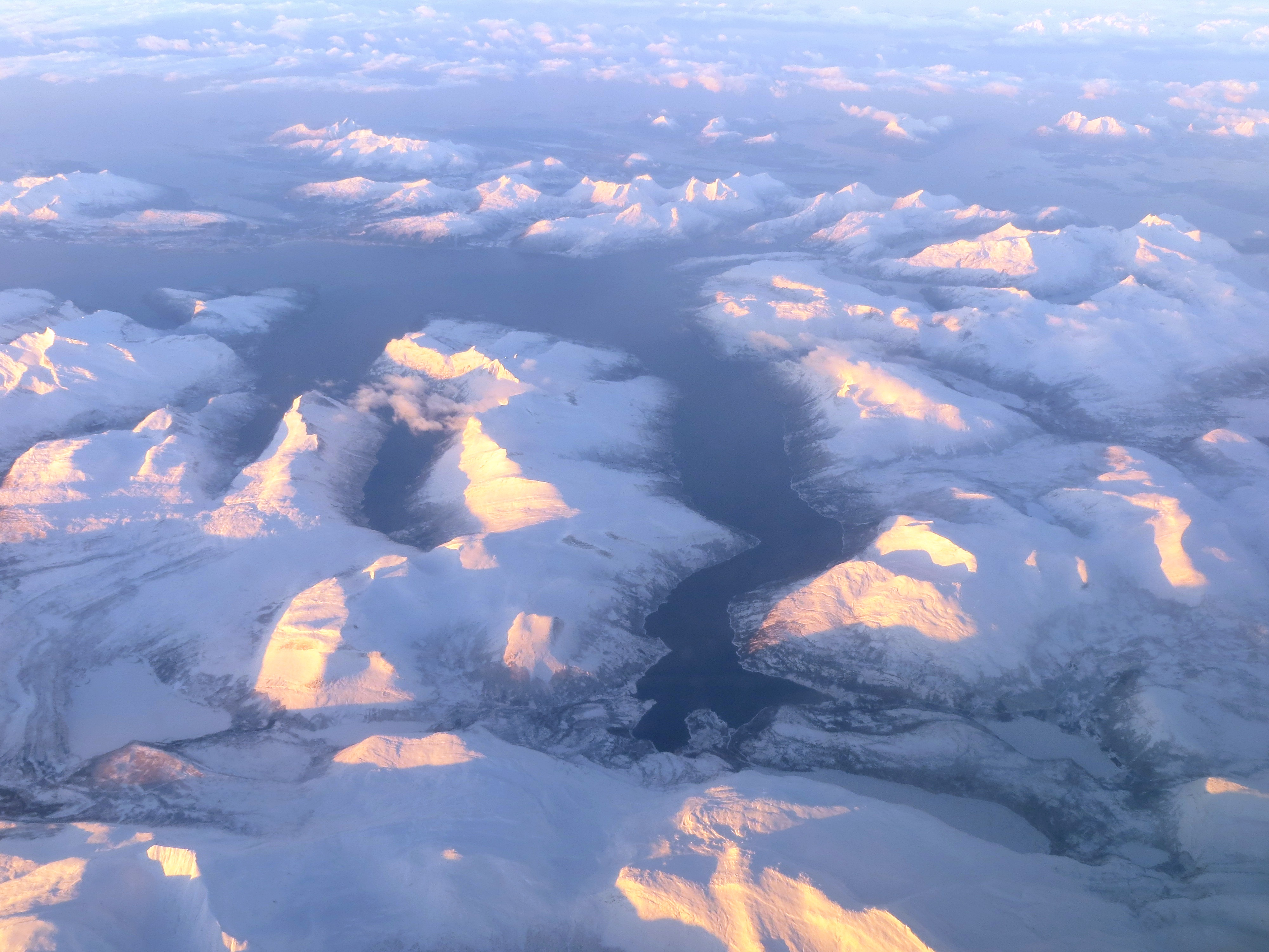 Image from the east towards west, over Steigen municipality - island of Hamarøy, Nordland county, Norway